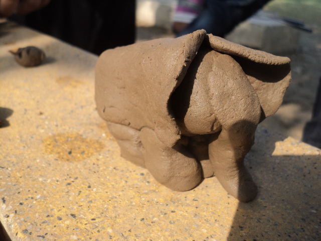 you can add different type of stuff once you start making, just take a full hand of wet mud at the time of morning walk and sit with your kids than start making different sculptures, the stuff you can use like grass, flowers some dry woods stick. etc.